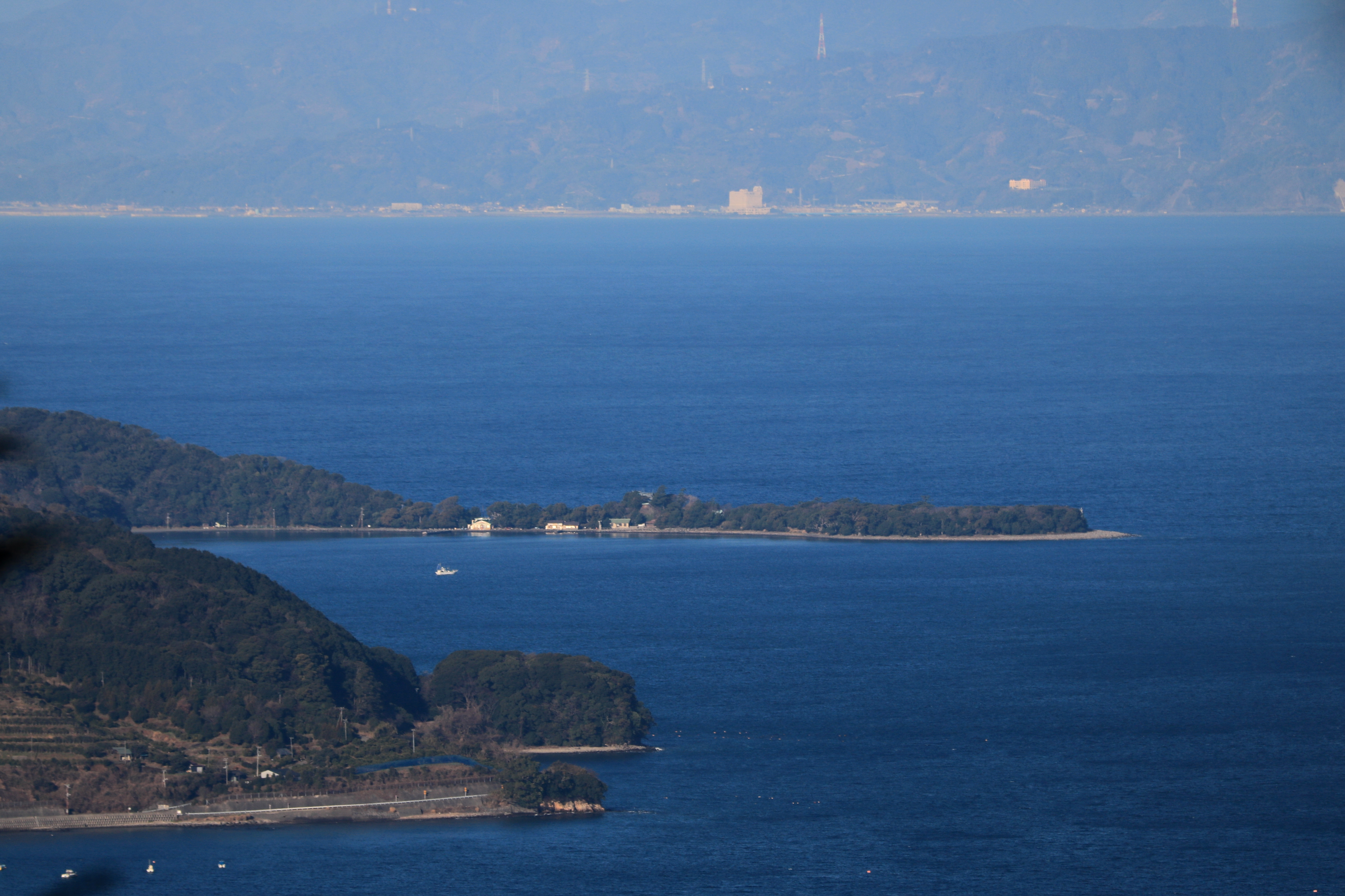 Cape Ose seen from Mount Hottanjo in Numazu, Shizuoka prefecture, Japan.